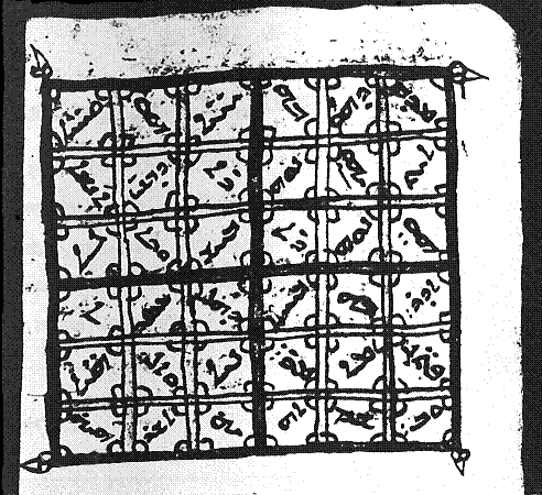 Magic diagram containing the words of Saint John. An illustration from the Syriac manuscript named Codex A (p. 3) by Hermann Gollancz, which is a collection of Eastern Christian charms and incantations associated with the Assyrian Church of the East.